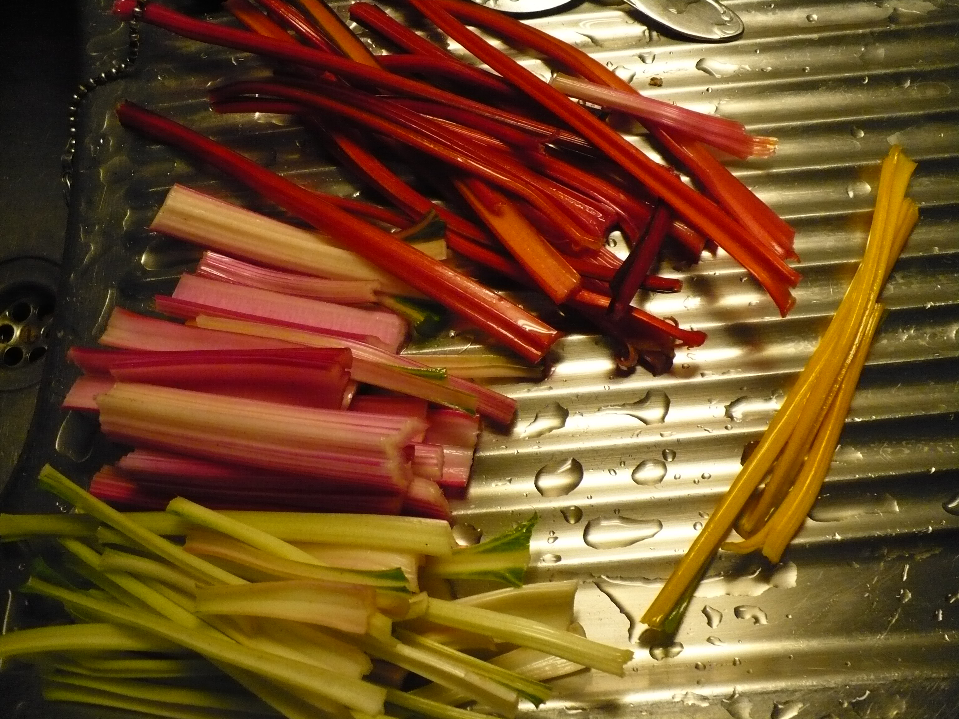 Chard stems